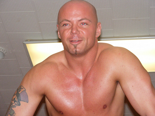 Professional wrestler Gran Akuma at a Chikara event in 2008